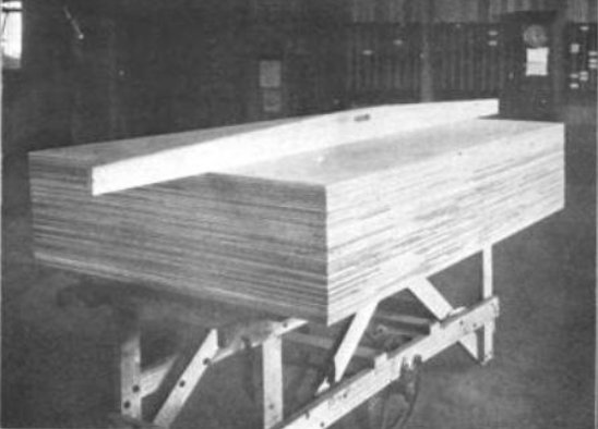 Haskelite 5/16th inch thick plywood